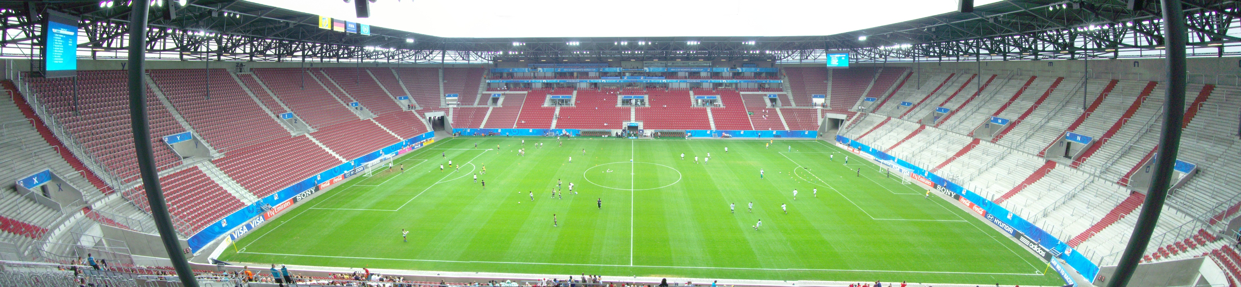 Panorama of Impuls Arena as “FIFA Women's World Cup Stadium Augsburg” at 2010 FIFA U-20 Women's World Cup, before Nigeria–Japan, teams warming up.